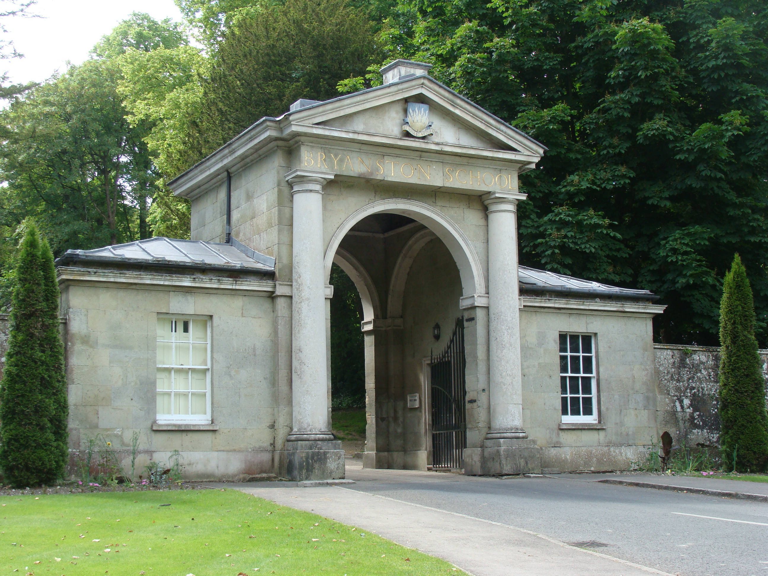 BRYANSTON SCHOOL Wikidata has entry Q995138 with data related to this building.